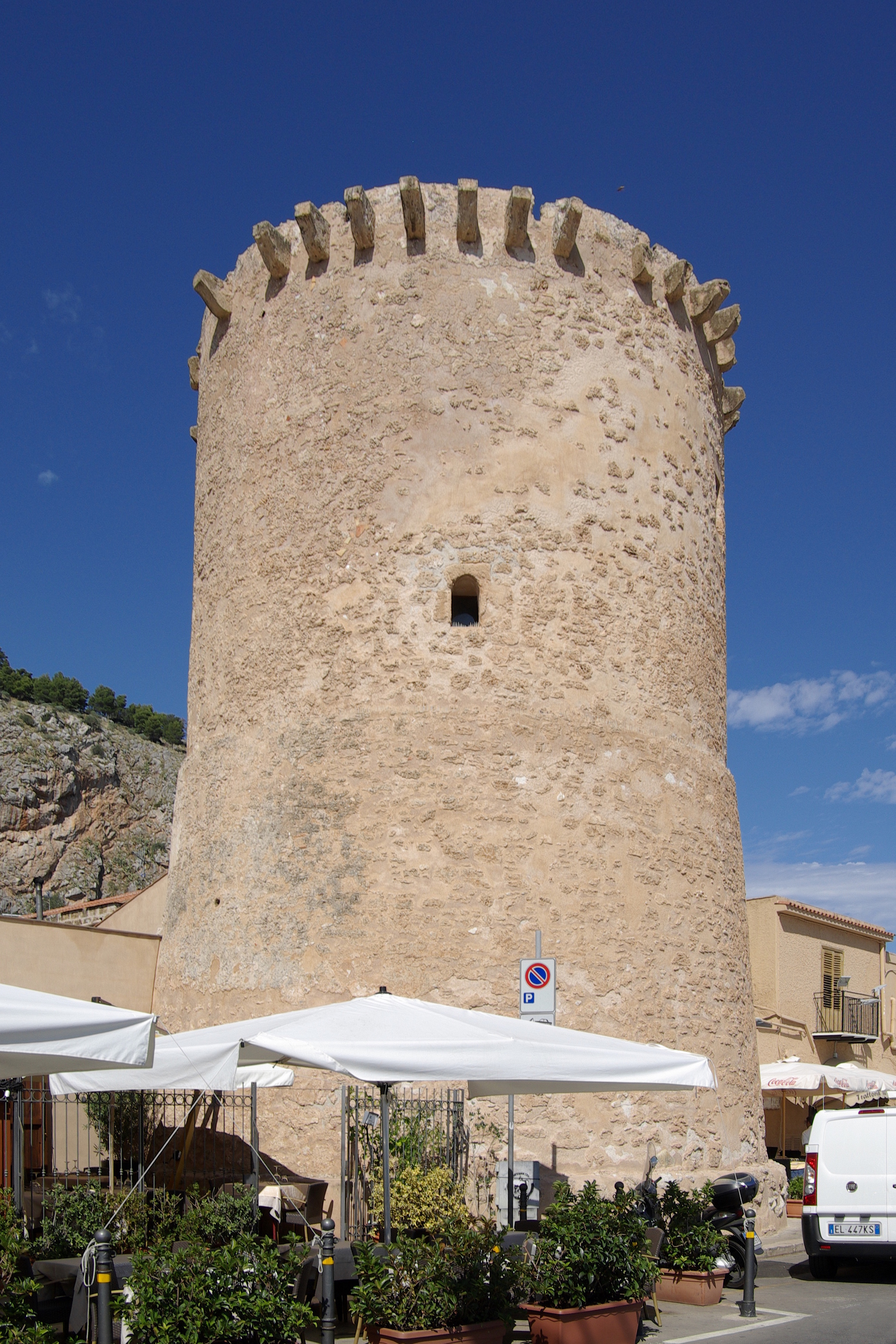 Italy, Sicily, Palermo, Mondello